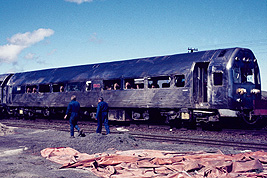 The wrecked Silver Fern railcar at Tangiwai in 1981. It had rolled between Waiouru and Tangiwai